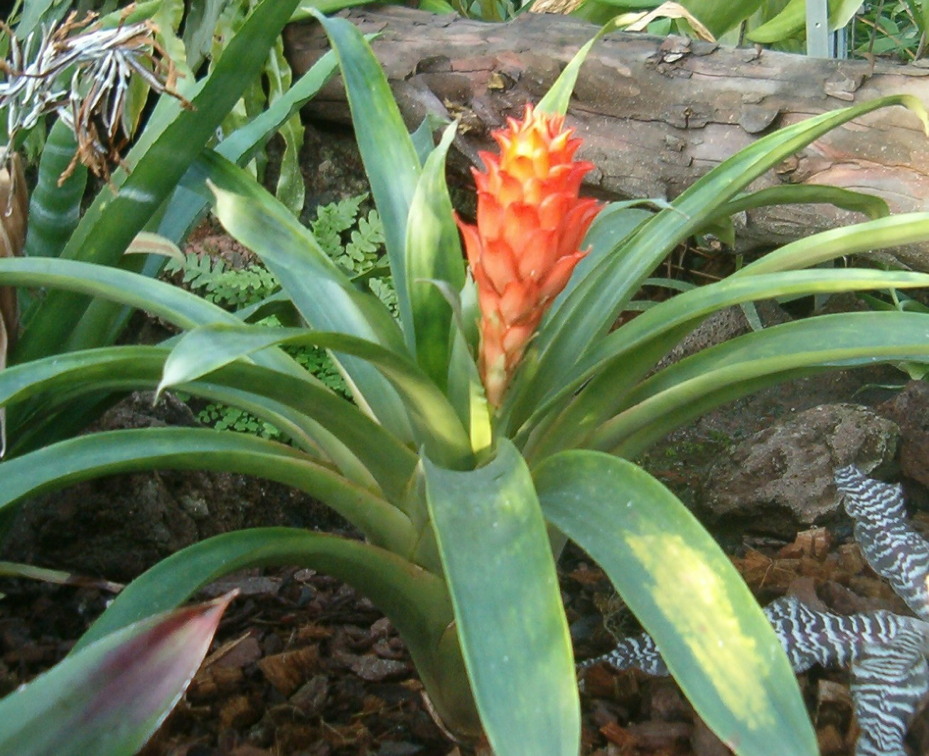 At Botanical Gardens Berlin-Dahlem Species Guzmania osyana